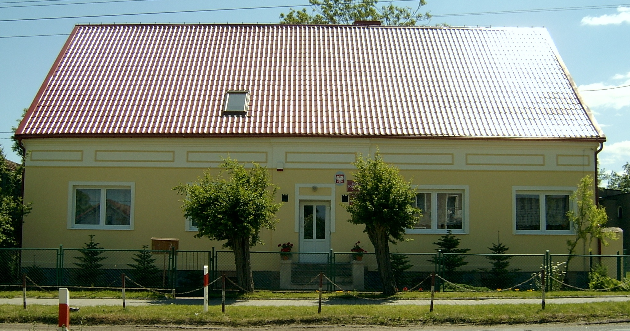 Elementary school in Kunowice in Poland.